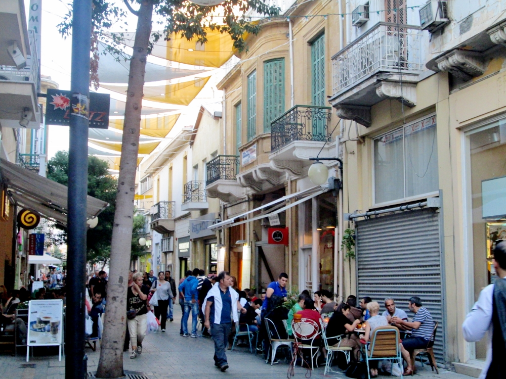 Ledra Street sunny afternoon Nicosia